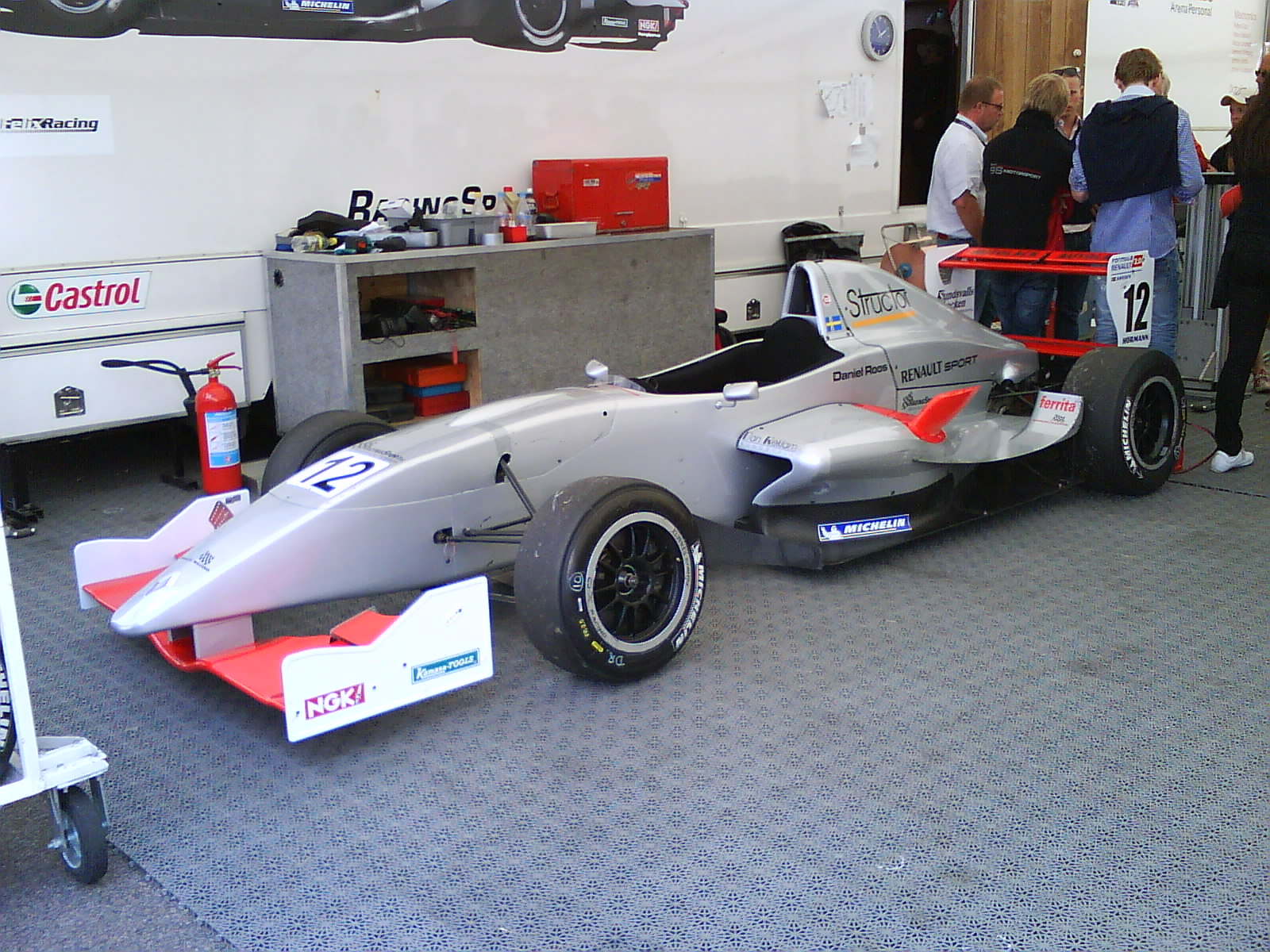 Daniel Roos Formula Renault 2.0 Sweden car. Falkenbergs Motorbana 2009.